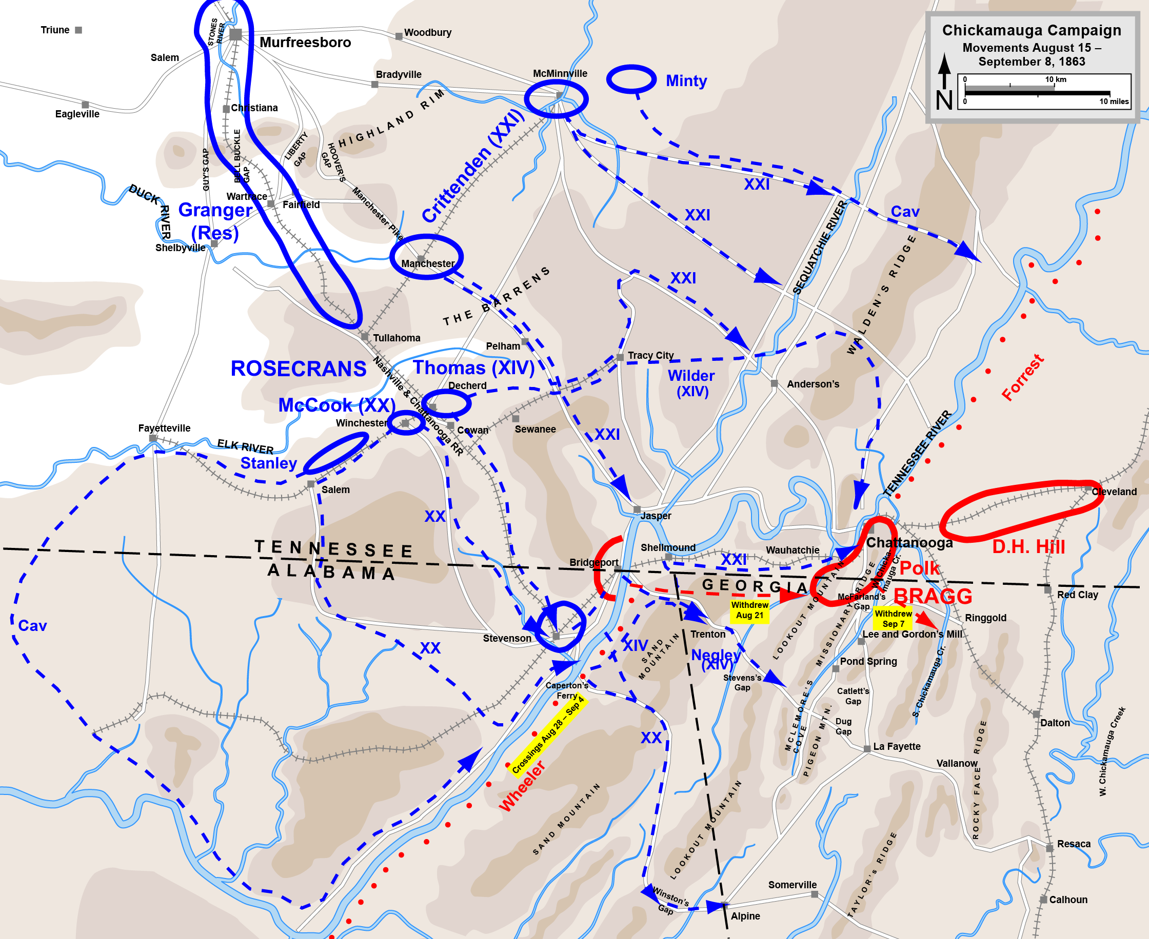 Map of Chickamauga Campaign of the American Civil War. Drawn in Adobe Illustrator CS5 by Hal Jespersen. Graphic source file is available at